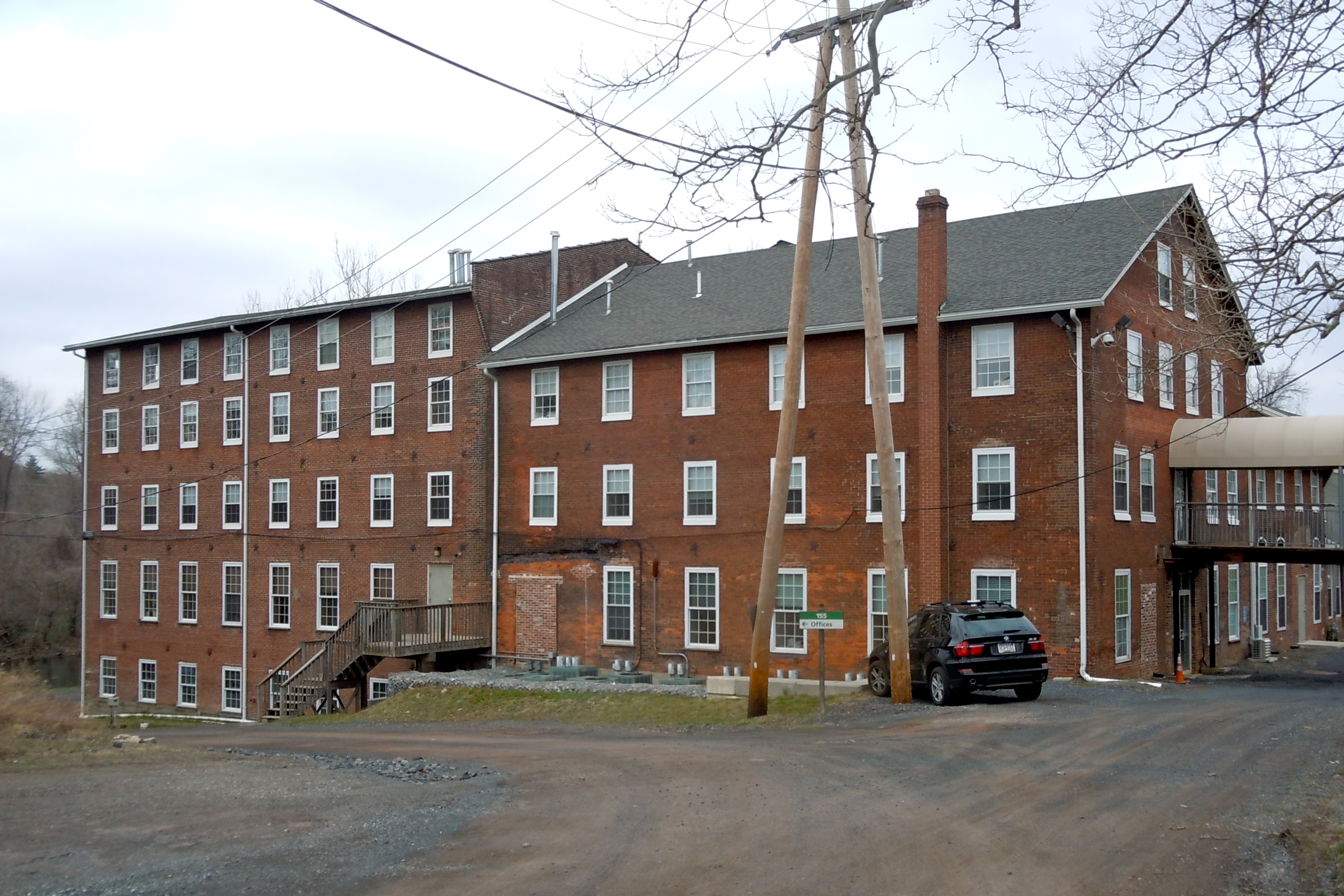 Continental Stove Works on the NRHP since January 9, 1986. Located on First Street north of Main Street on the Schuylkill River, Royersford, Pennsylvania. From SE corner of the works